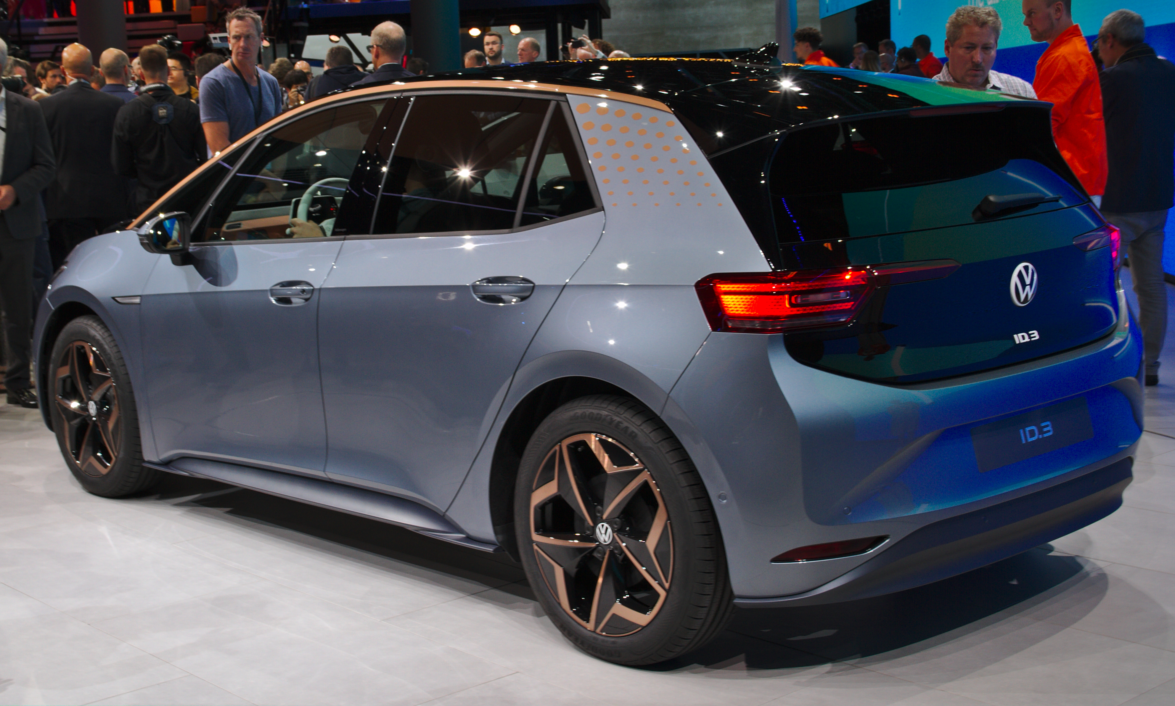 Volkswagen_ID.3 at IAA 2019